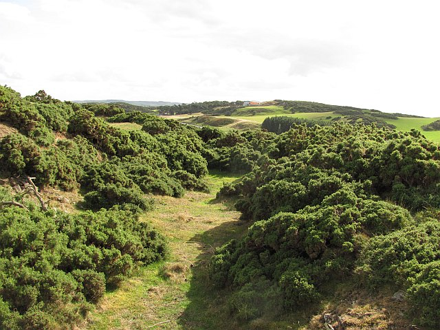 Earthworks, Tun Law.A hill fort at the edge of steep crags.